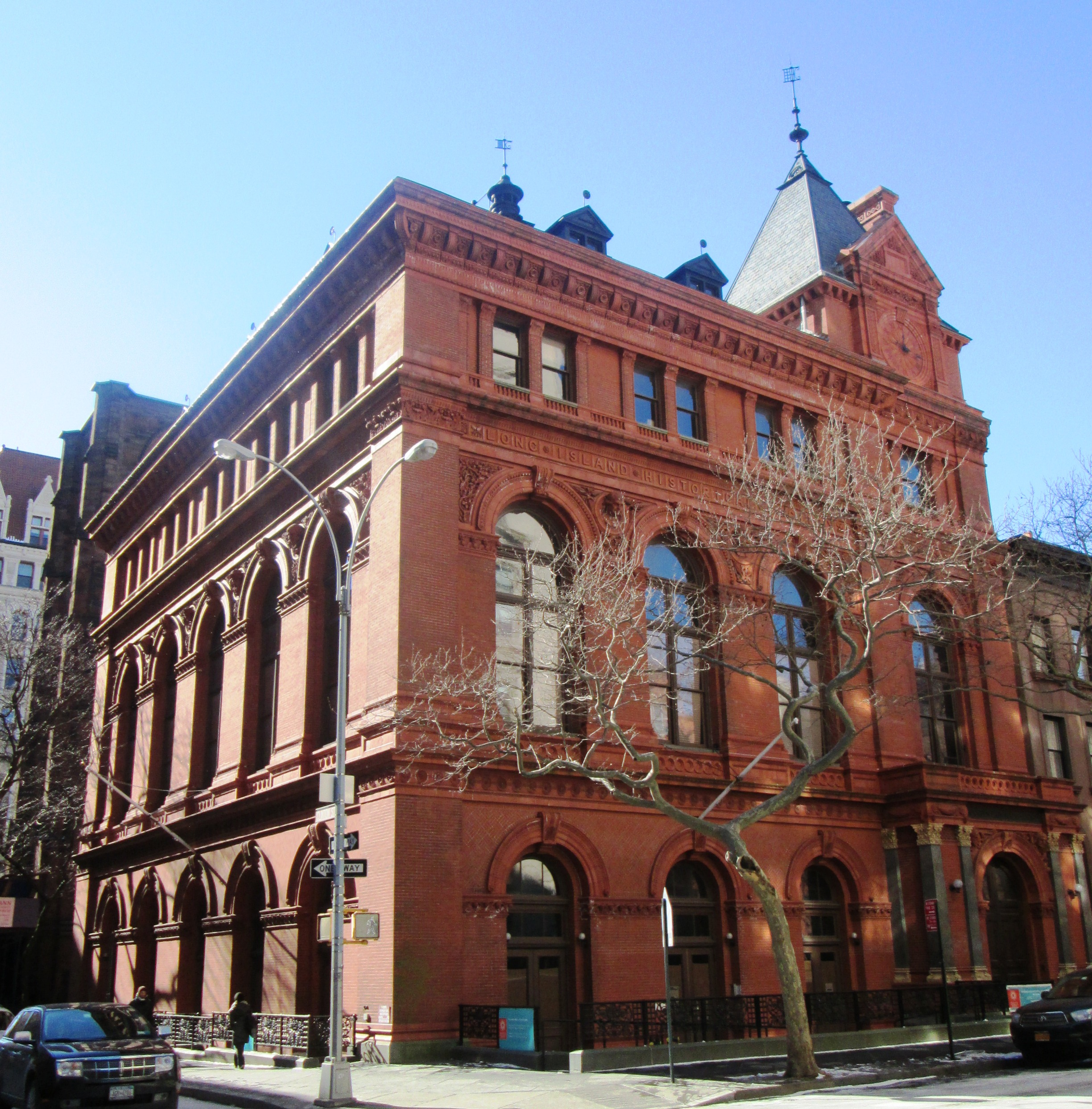 The Brooklyn Historical Society (originally the Long Island Historical Society) was formed in 1863, and its building at 128 Pierrepont Street at the corner of Clinton Street in the Brooklyn Heights neighborhood of Brooklyn, New York City was built in 1881. It was designed by George W. Post in the Renaissance revival style, with sculptures by Olin Levi Warner. The building was restored from 1998-2003 by Jan Hird Pokorny. The building is located in the Brooklyn Heights Historic District. The AIA Guide to New York City calls the building "one of the City's great architectural treasures, both inside and out." (Source: AIA Guide to NYC (5th ed.) and Guide to NYC Landmarks (4th ed.))